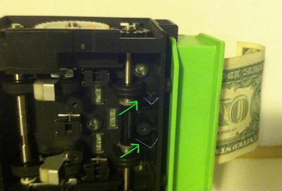 A United States dollar bill passing through a typical United States bill validator with a green bezel.